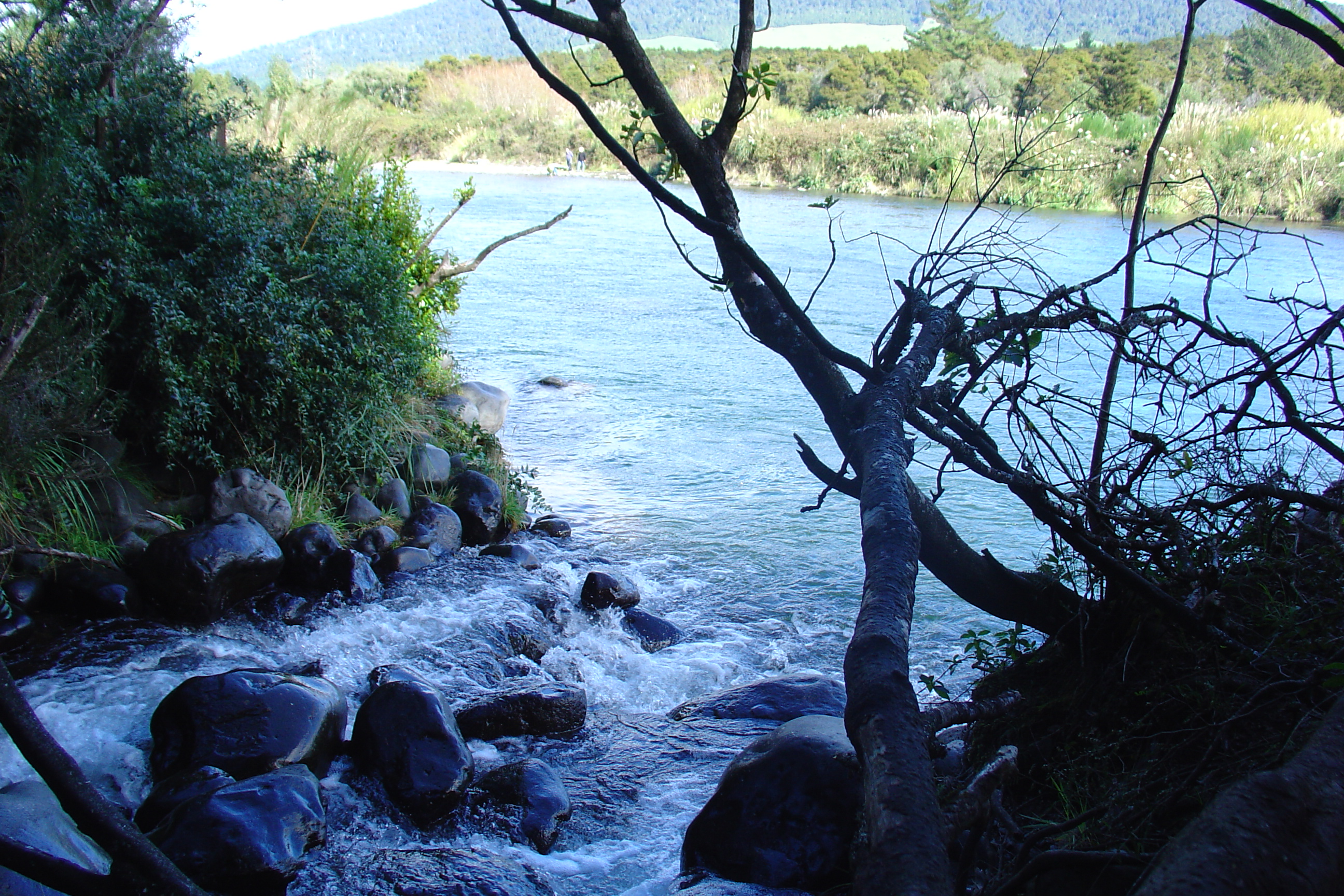 Photo from Turangi, New Zealand Tongariro River photo